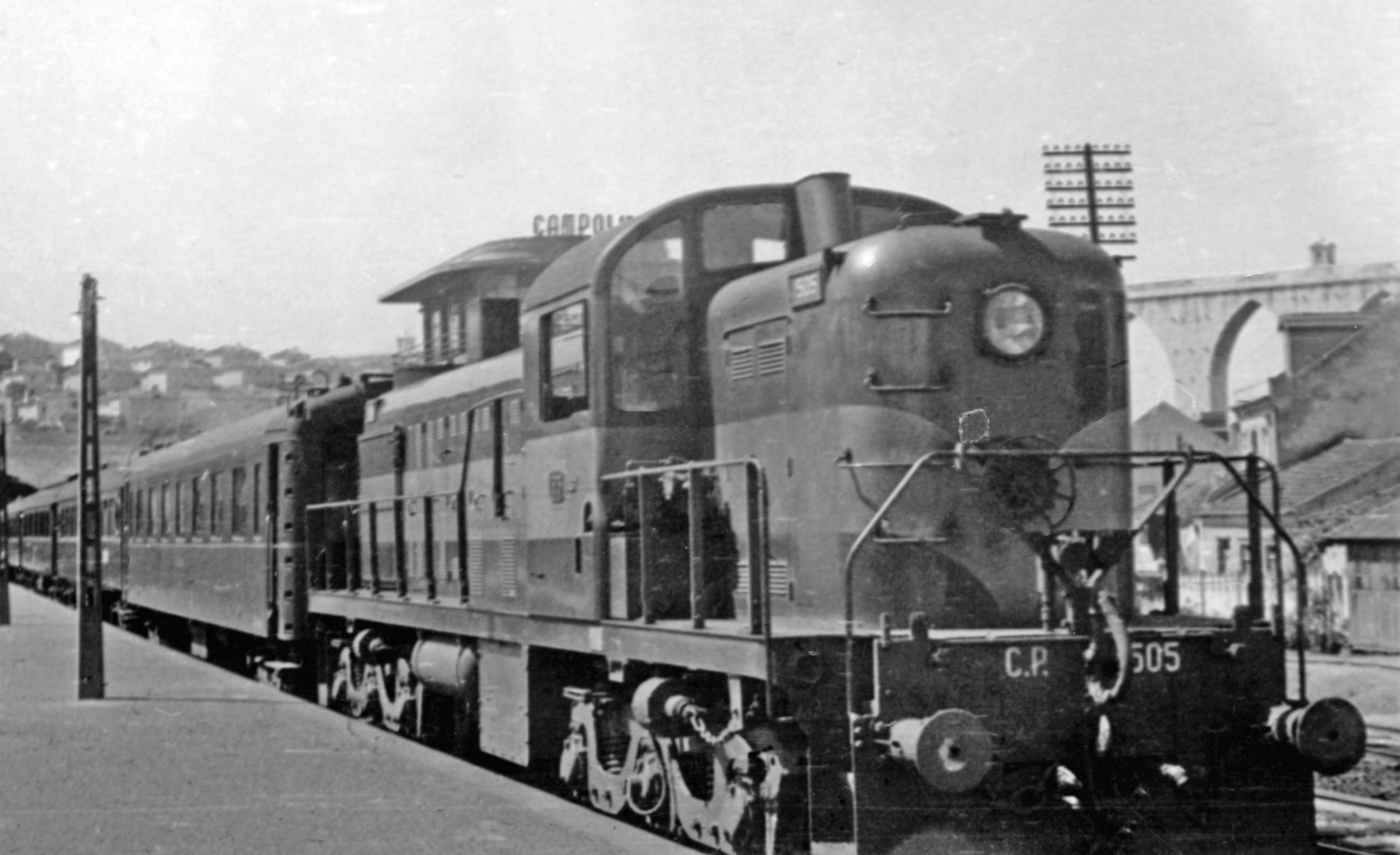 Lisboa Campolide: Diesel-hauled express from Rossio, probably for Oporto.